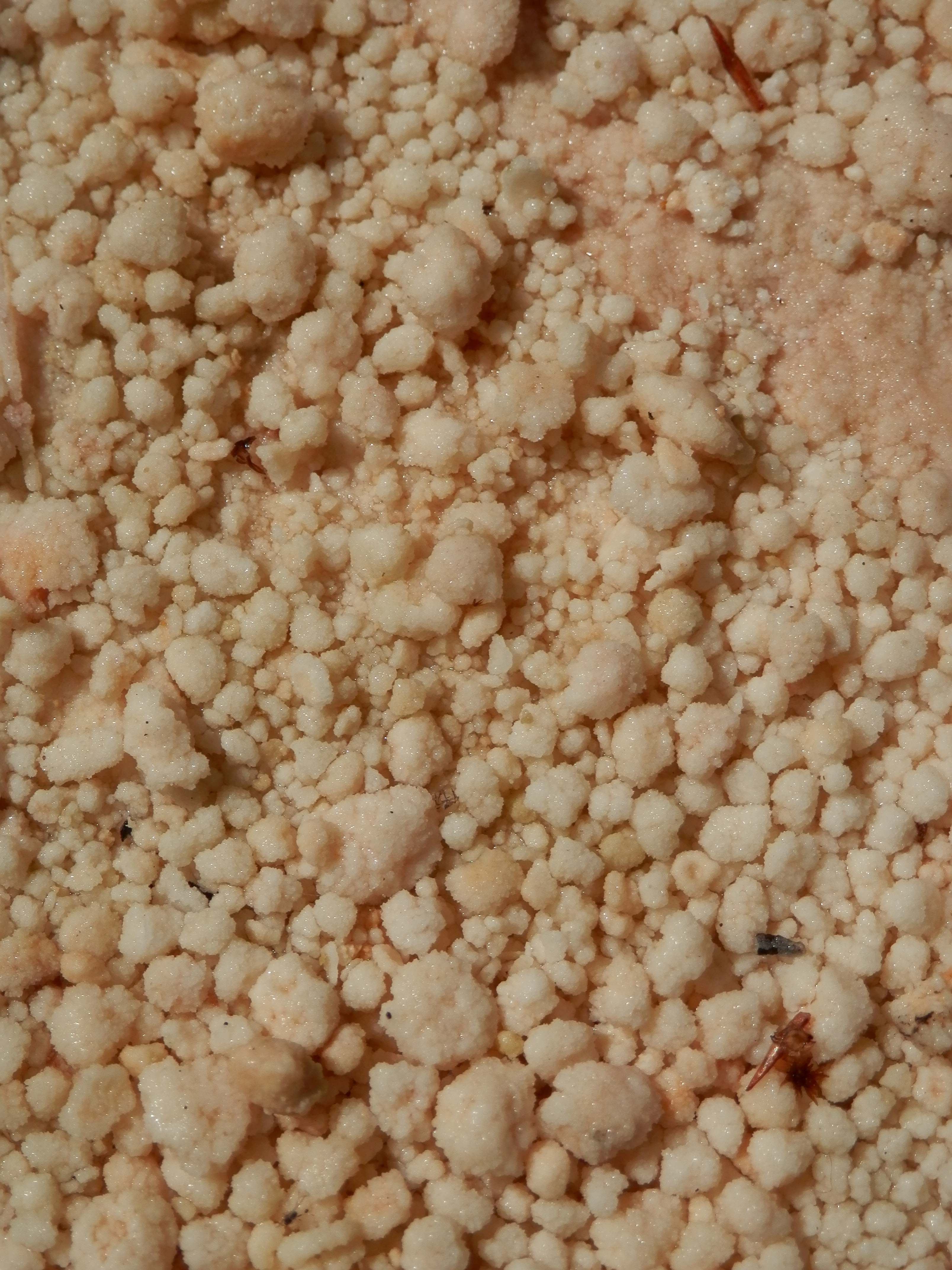 Geyser Island Spouter tufa deposits at Saratoga Spa State Park in Saratoga Springs, New York, United States of America.